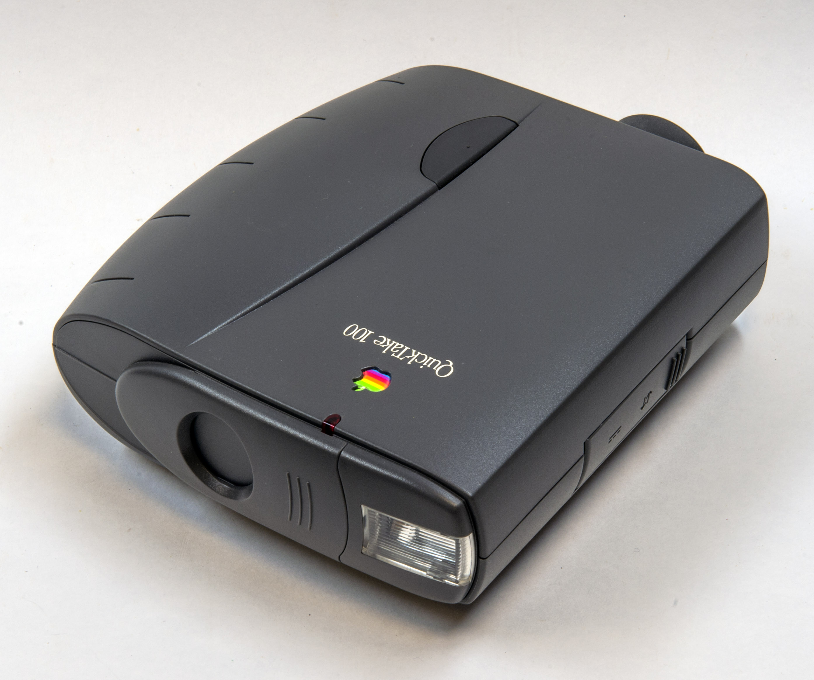 Apple Quicktake 100 Digitalkamera